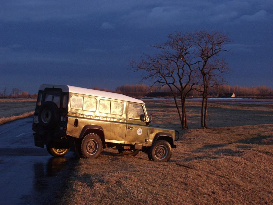 Land Rover Defender 110 (Mekszikópuszta, Hungary)